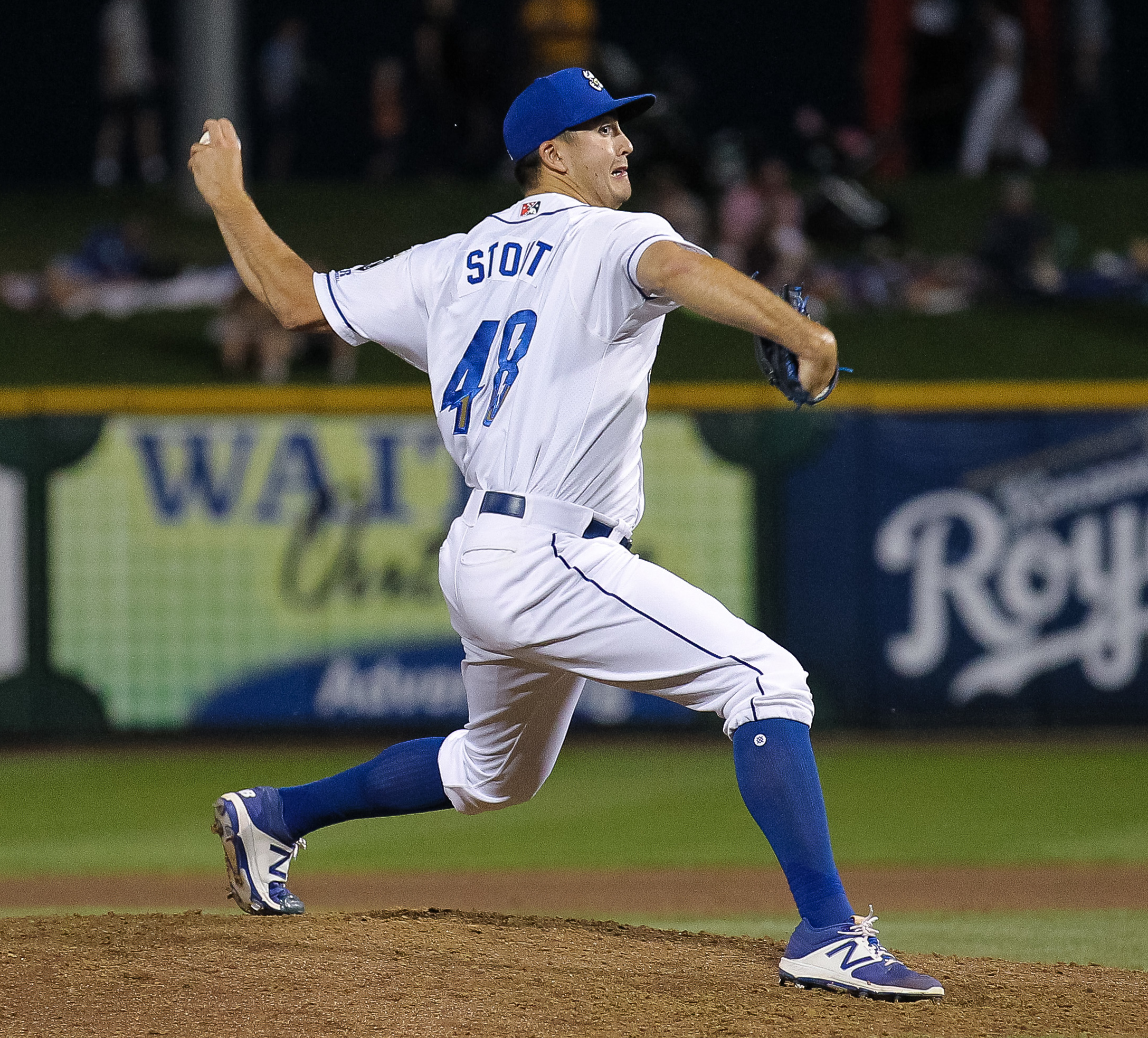 Minda Haas Kuhlmann | 2017 USAGE INSTRUCTIONS: You are welcome to share or publish to your own site or social media account, but you MUST credit me, Minda Haas Kuhlmann, or by my Twitter handle (@minda33) or Instagram (minda.haas).